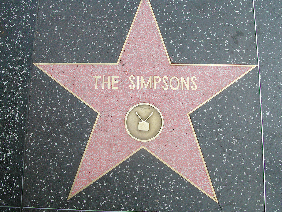 The Simpsons's star on the Hollywood Walk of Fame, Los Angeles (California)